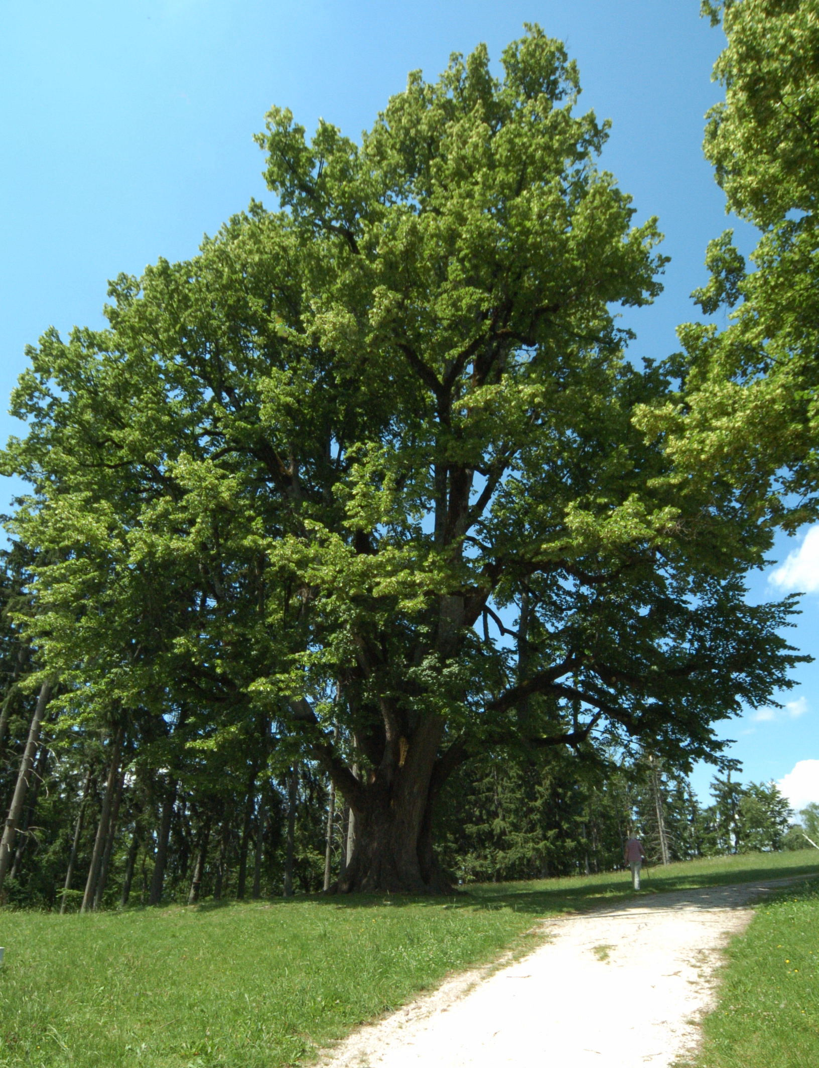 Natural monument linden at Hemmaberg in the community Globasnitz, district Voelkermarkt, Carinthia, Austria This media shows the natural monument in Carinthia with the ID Vö 29.